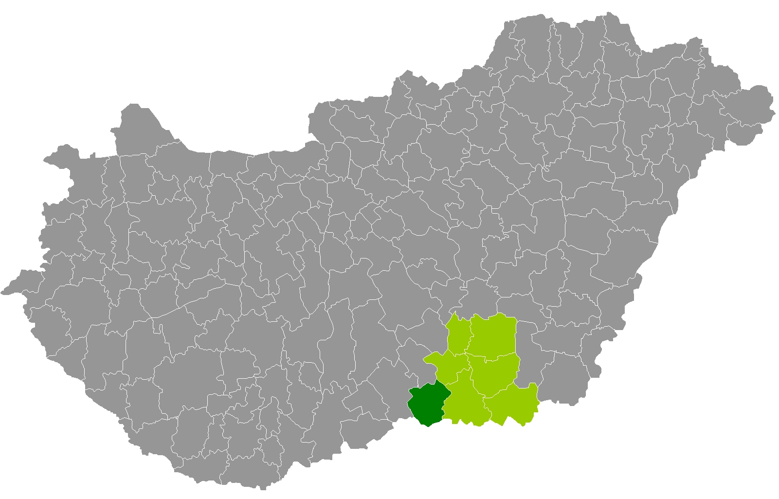 Location of Mórahalom District, Csongrád, Hungary